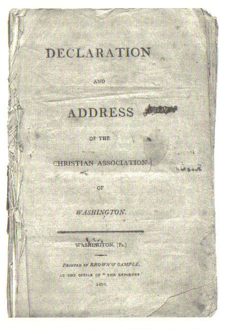 "This is the front cover from the book Declaration and Address of the Christian Association of Washington"